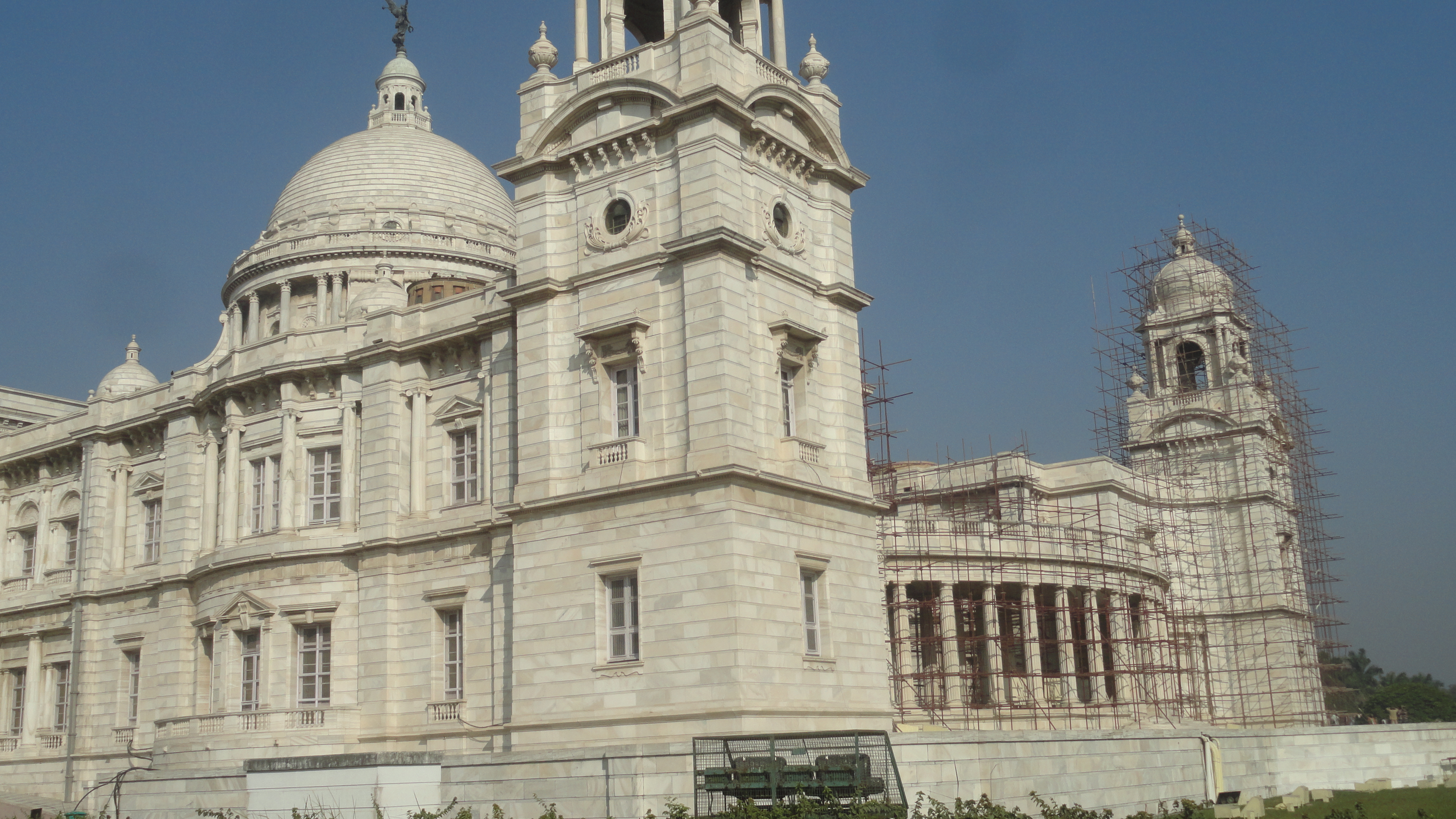 kolkata